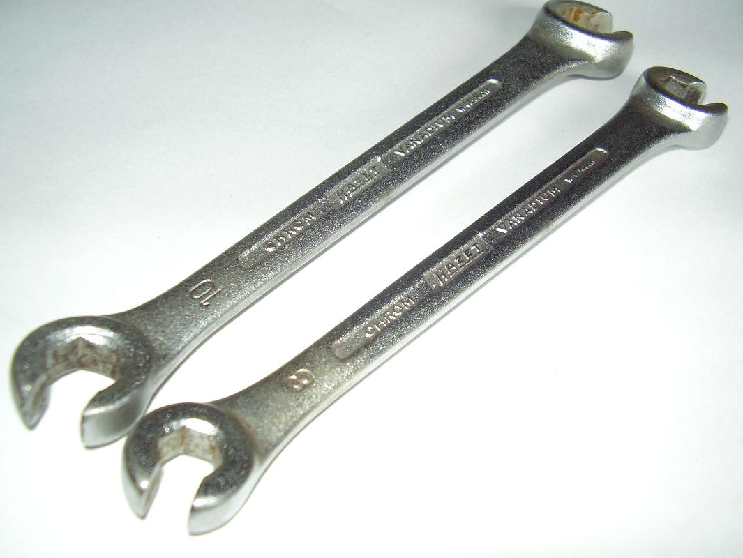 A flare-nut wrench/line wrench/tube wrench/crowsfoot spanner